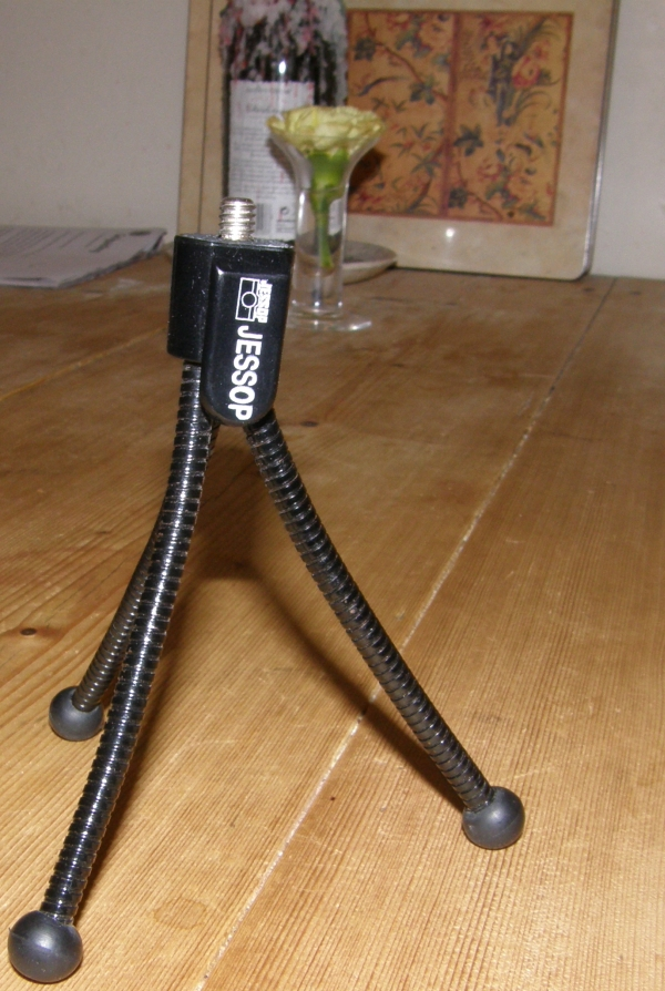 Mini flexy tripod